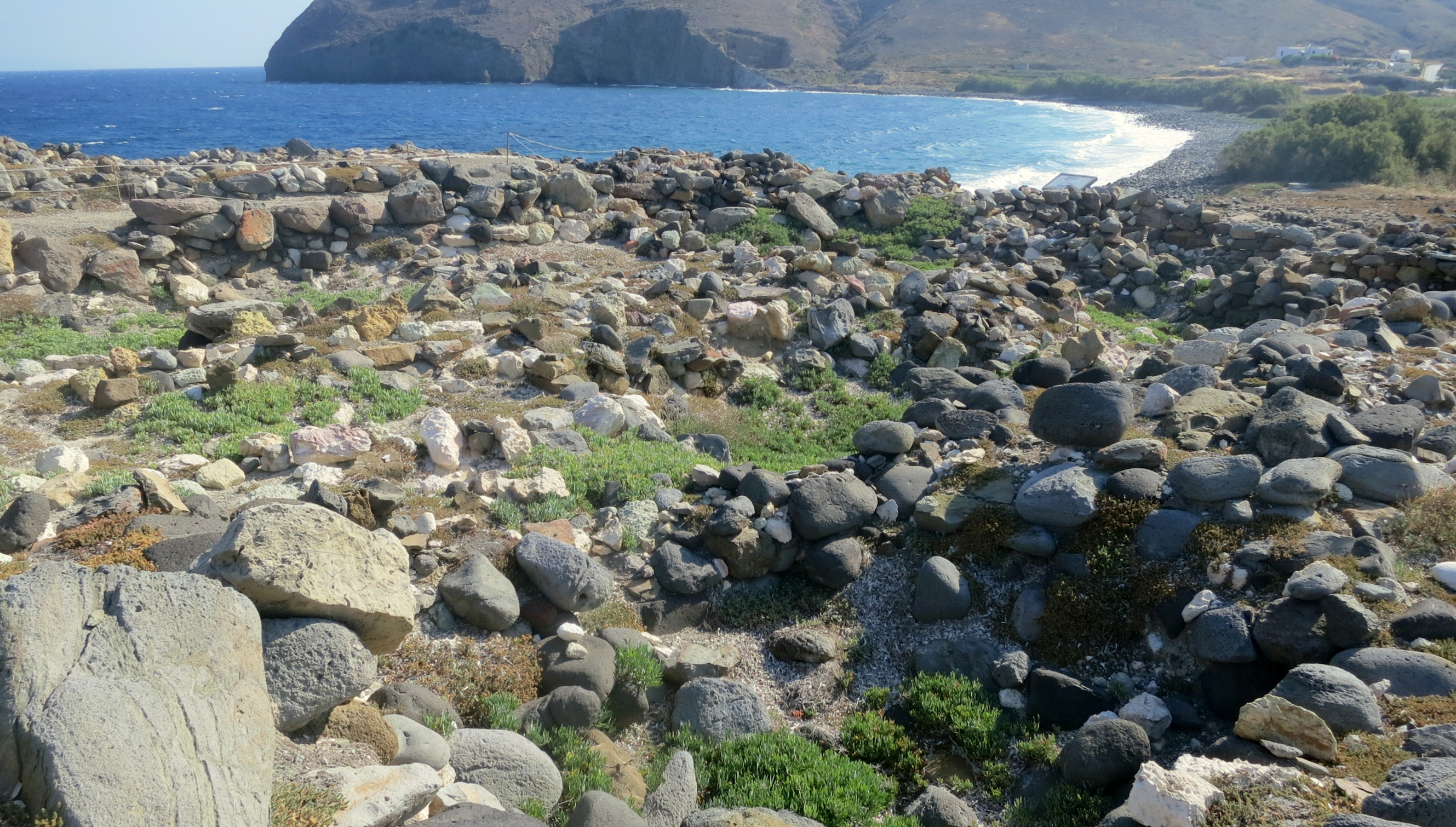 Phylakopi, Milos. Look to the northeast.